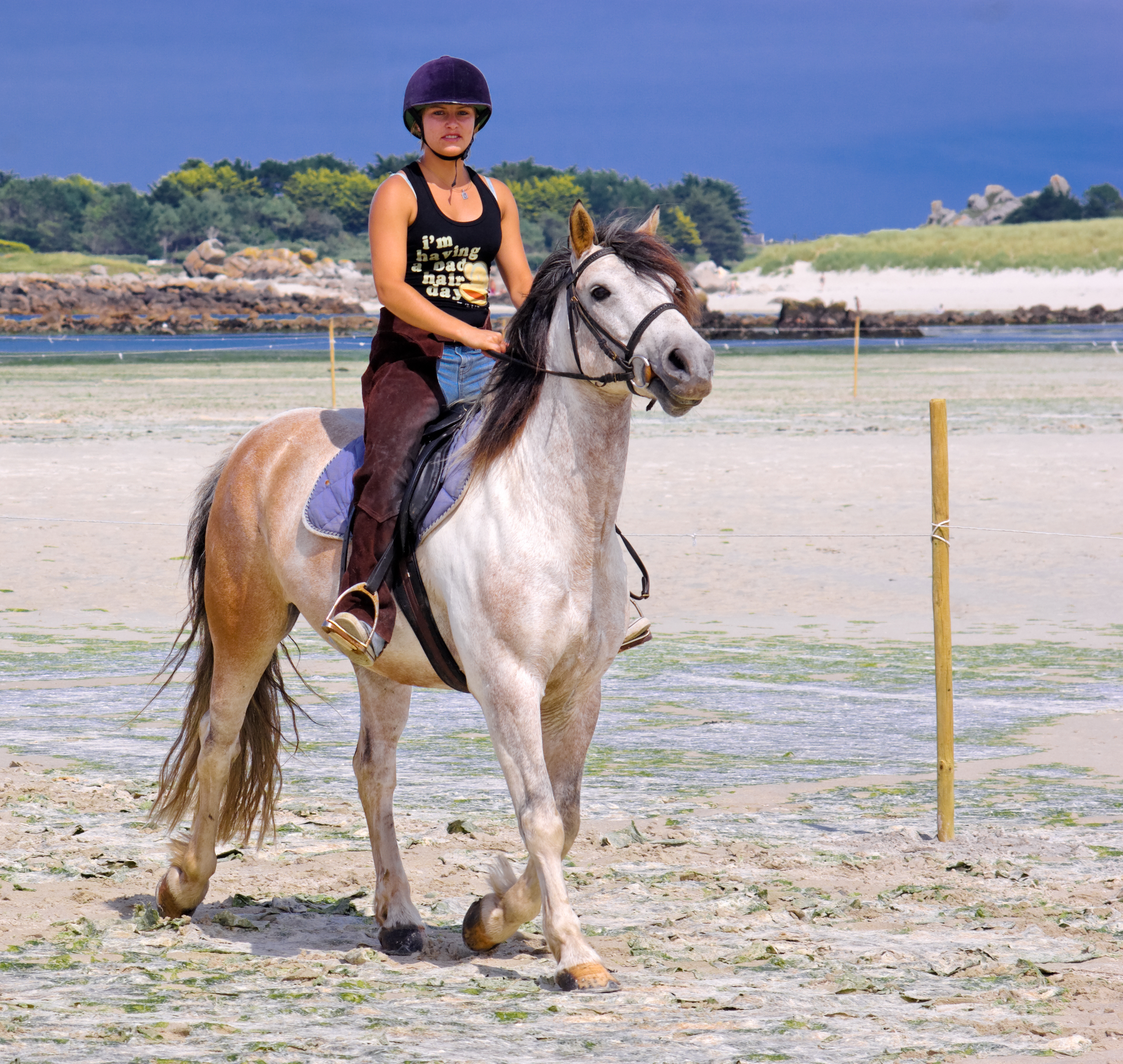 An unevenly greyed horse, the base colour is easily recognisable as a red-tone.